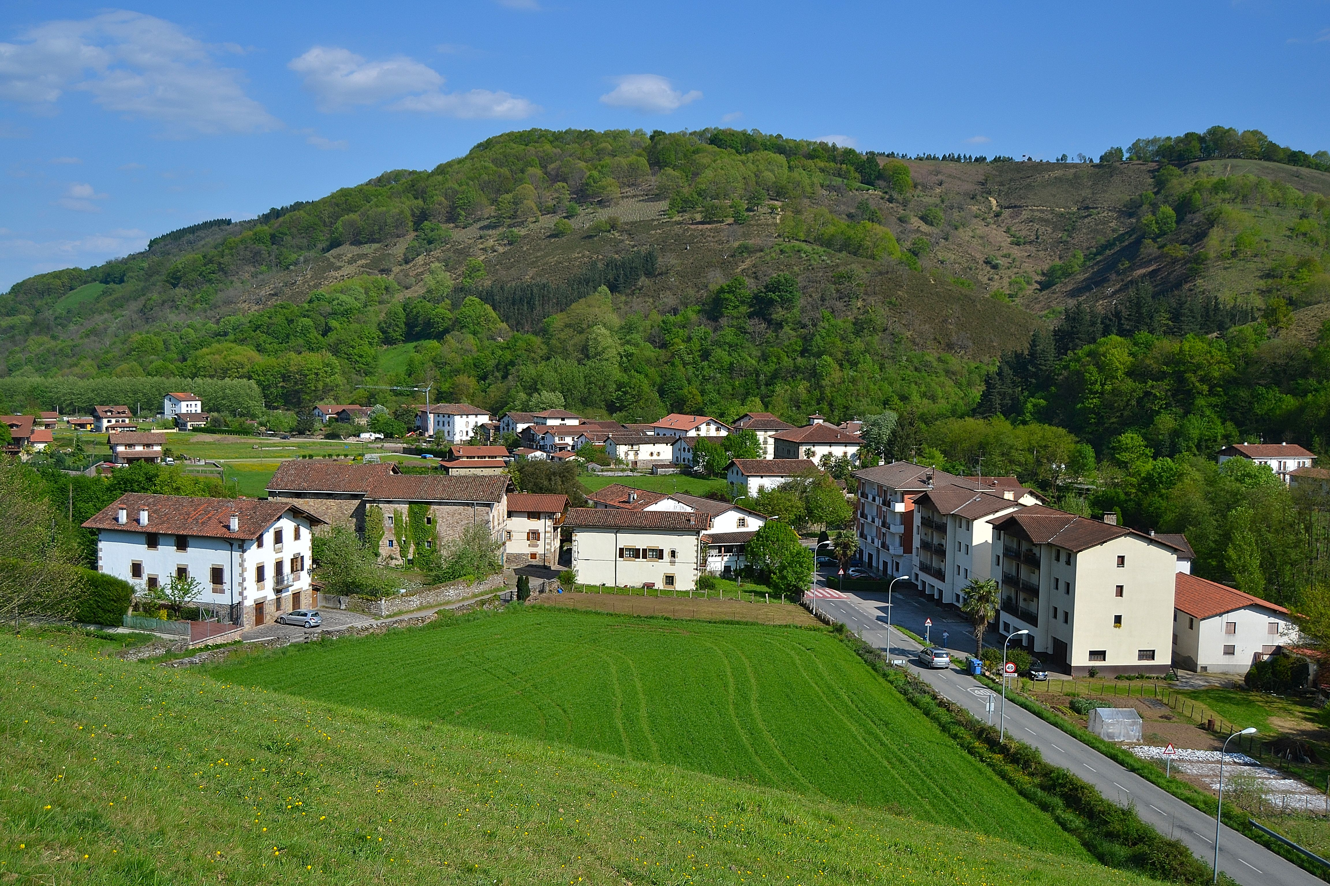 Ituren. Malerreka, Navarre. Basque Country.